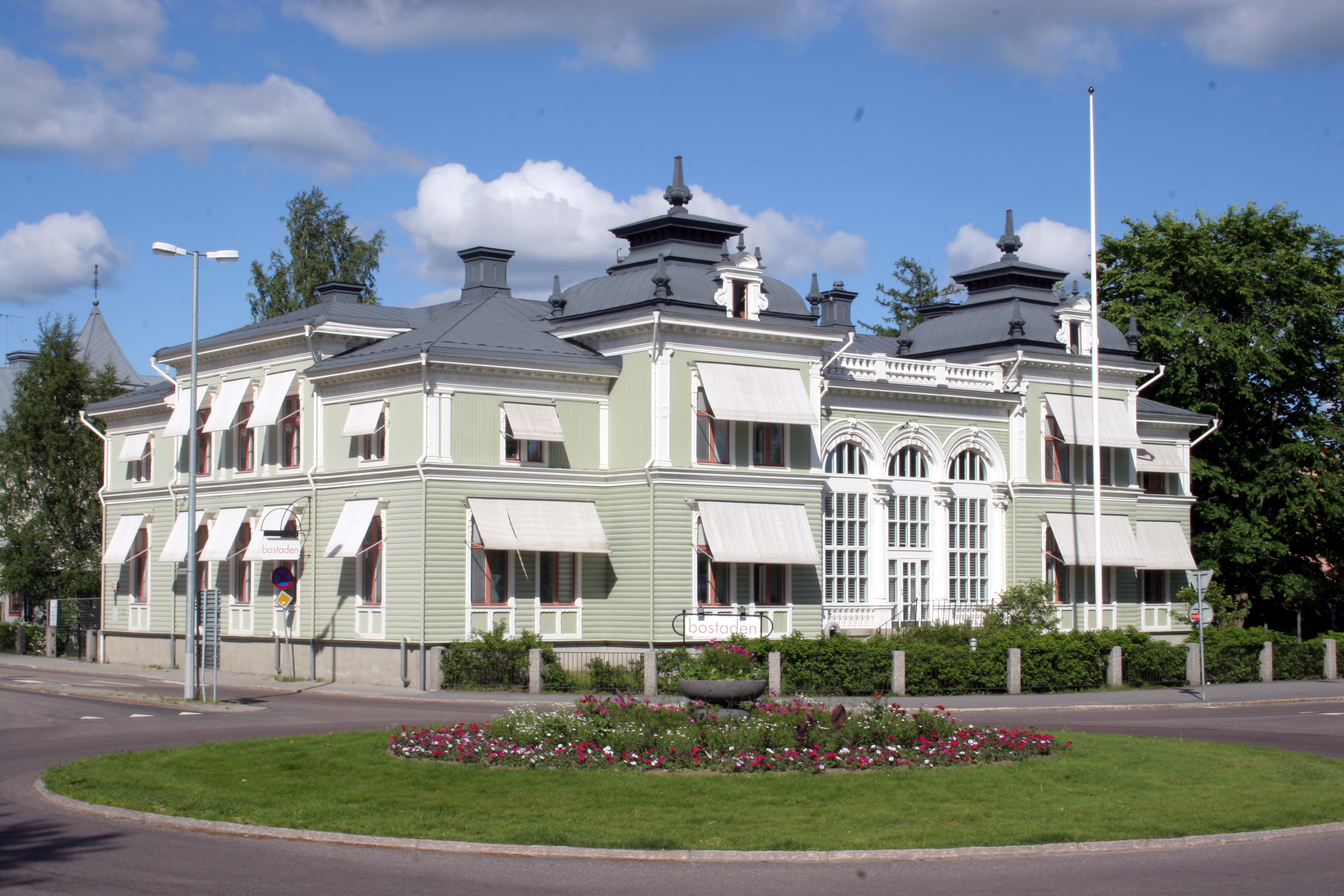 Moritzka gården in Umeå, Sweden.